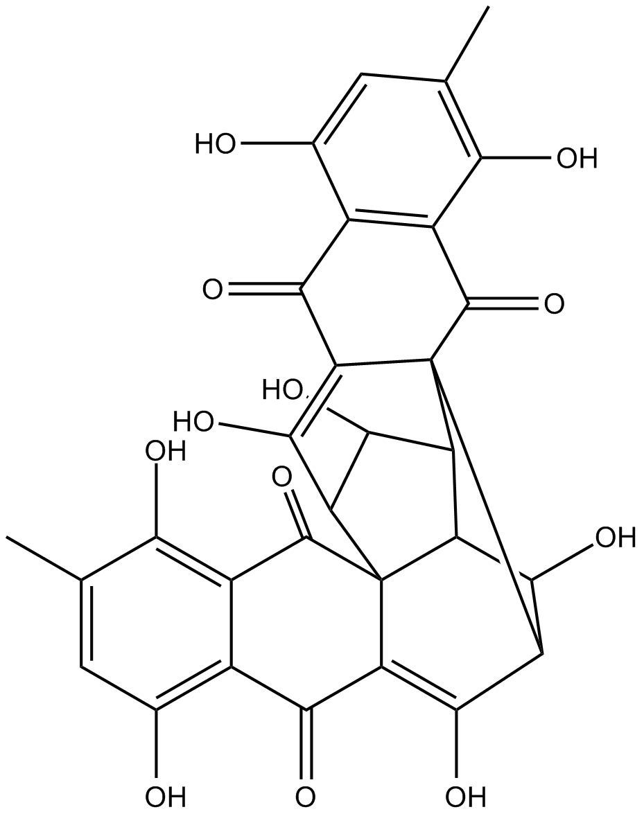 Structure of luteoskyrin